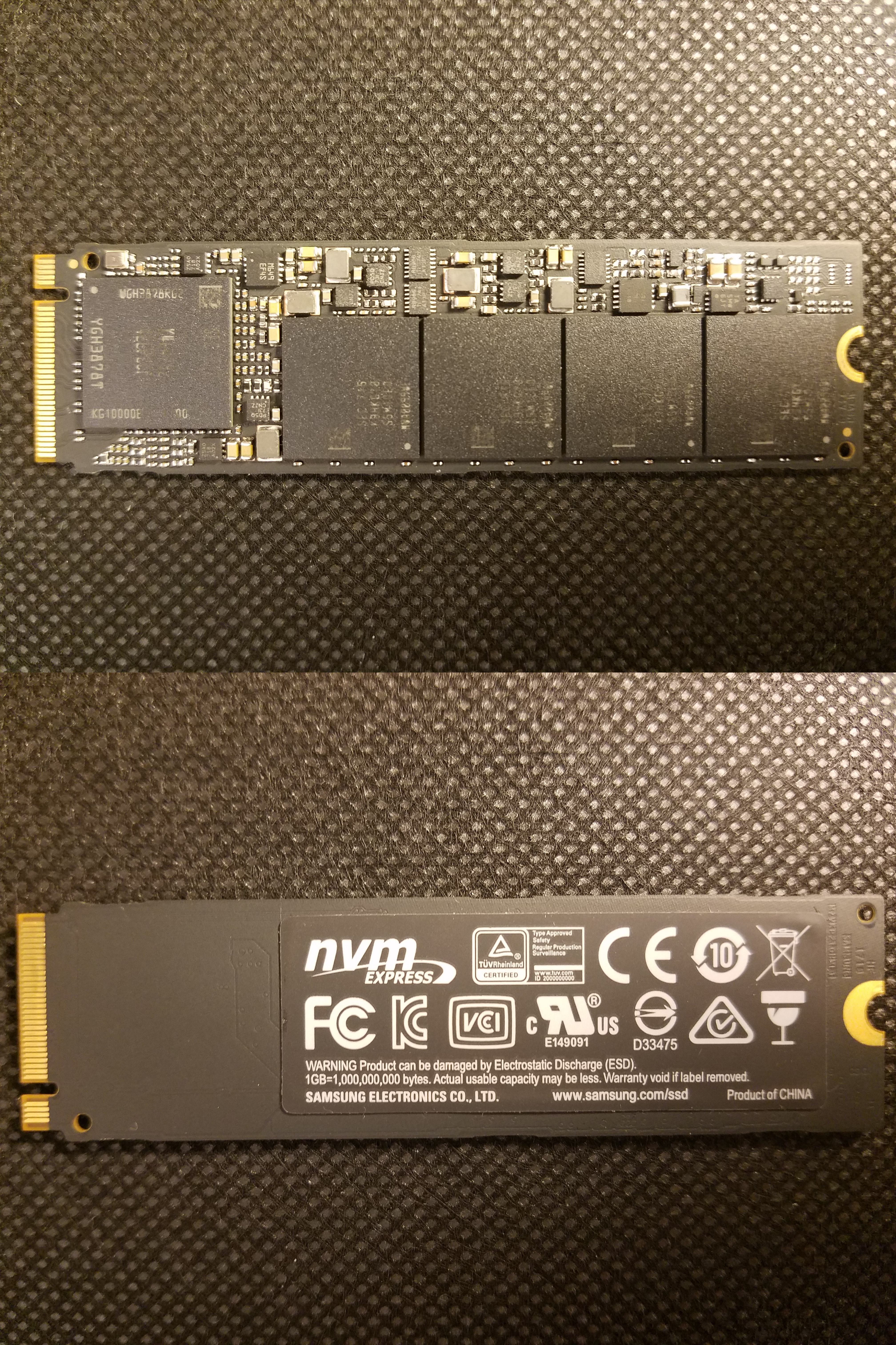 SSD Samsung 960 PRO de 512 Go. Au format NVM Express M.2 allows a speed of writing of 2100 MB / s and 3500 MB / s read. Its cost was about 300 € early 2018, its dimensions in mm are 80 x 22 x 2.4 for 9 grams, its load consumption is about 5.8 W for 40 mW when not in use.